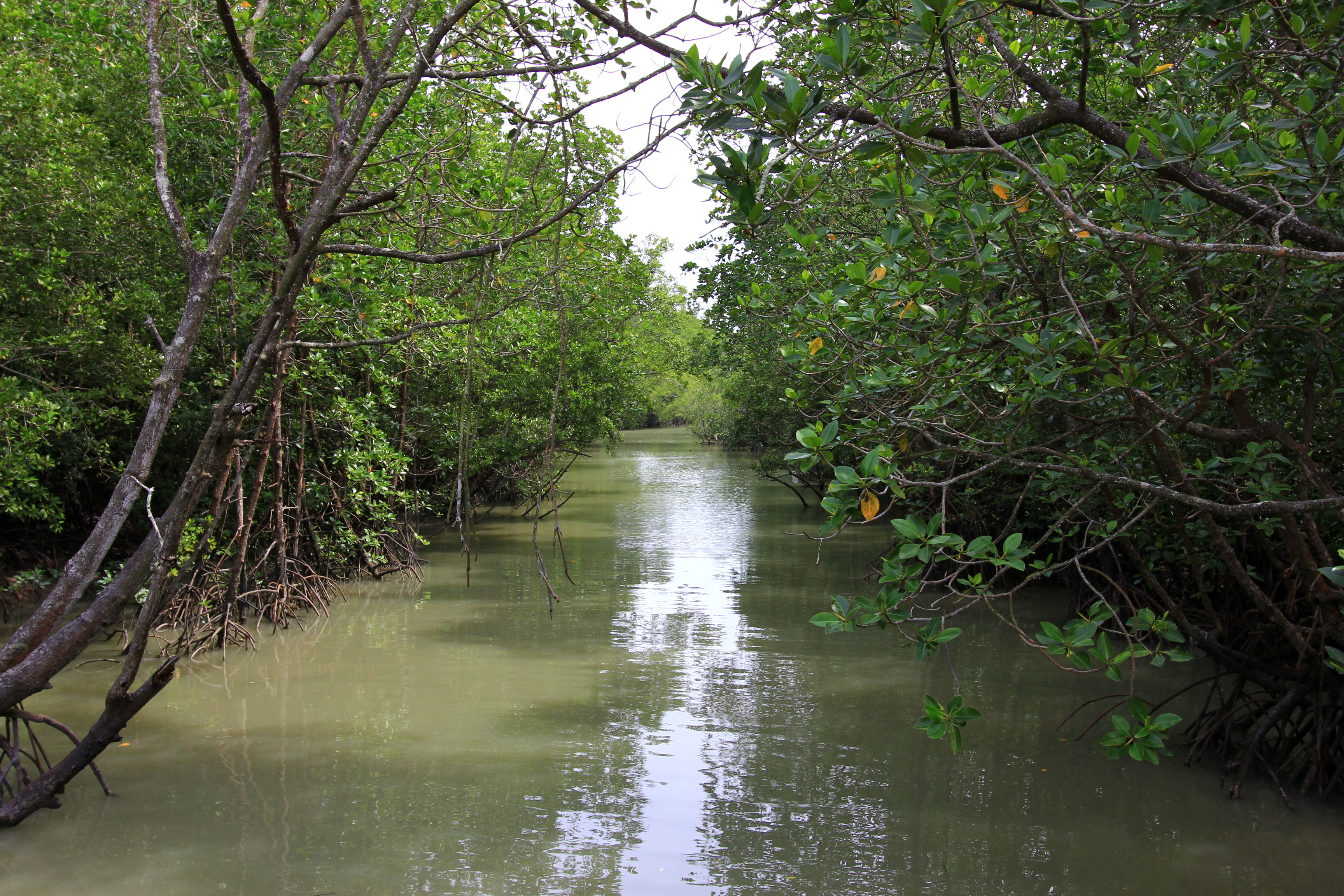 Vegetation (Mangrove forest) at Taman Negara Johor Pulau Kukup